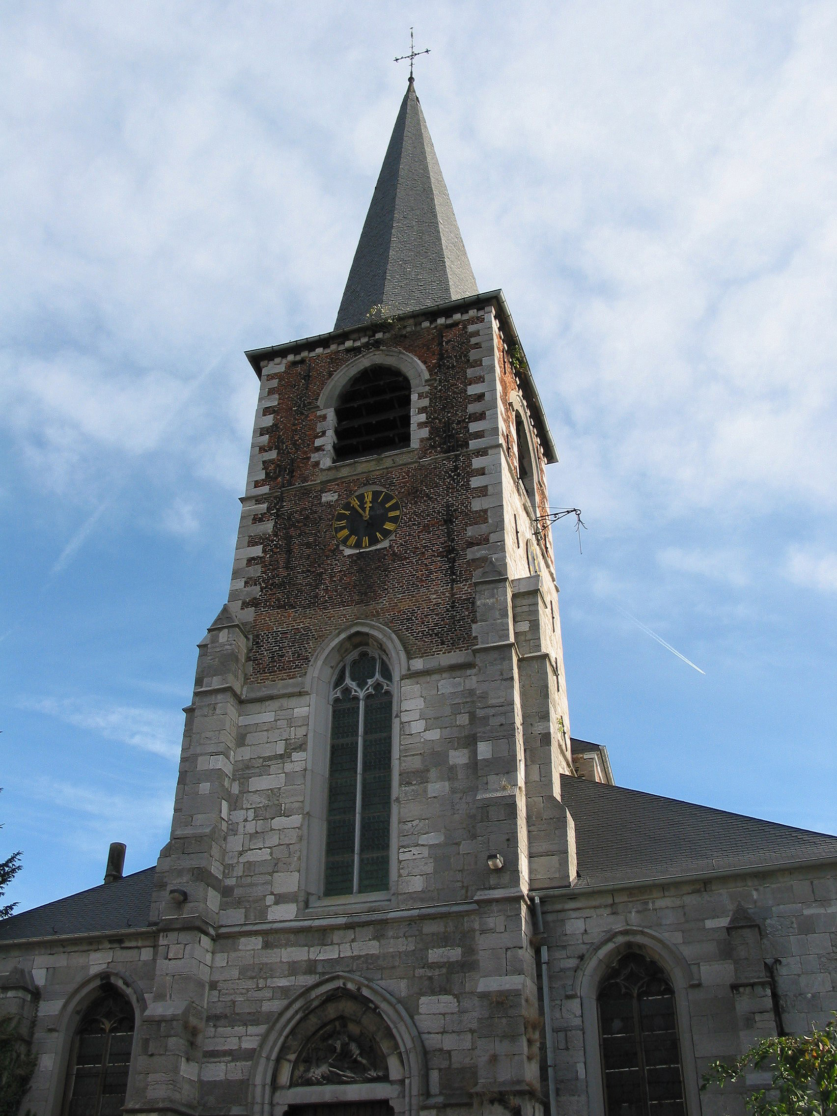 Fontaine-l'Évêque (Belgium), tower of the St. Christopher church (XVI/XVIIIth Centuries).